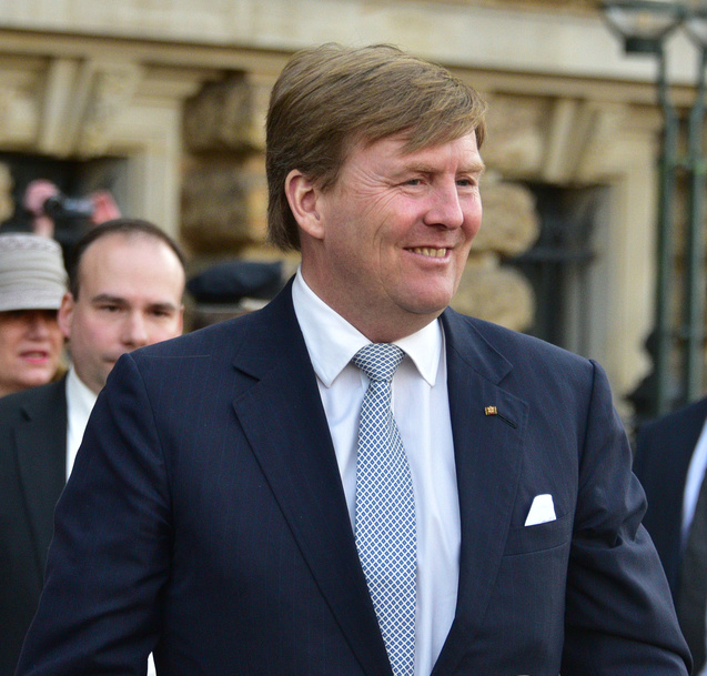 The Dutch royal couple and its delegation will be welcomed by Hamburg’s First Mayor Olaf Scholz at city hall on March 19, 2015. Then, the royals will attend the closing ceremony of the trilateral conference: “Offshore Wind in the Netherlands, Germany and Denmark, a contribution to the European Energy Transition” in the Hamburg Chamber of Commerce. On its panel, German, Dutch and Danish experts will talk about the contribution of the three countries towards the energy revolution in Europe. The three speeches on the agenda will be held by His Majesty King Willem-Alexander, Hamburg’s First Mayor Olaf Scholz, and the former President of the Hamburg Chamber of Commerce, Dr. Karl-Joachim Dreyer. Aftwerwards, the royal couple will be asked to sign the guestbook of the Hamburg Chamber of Commerce. More Photos At